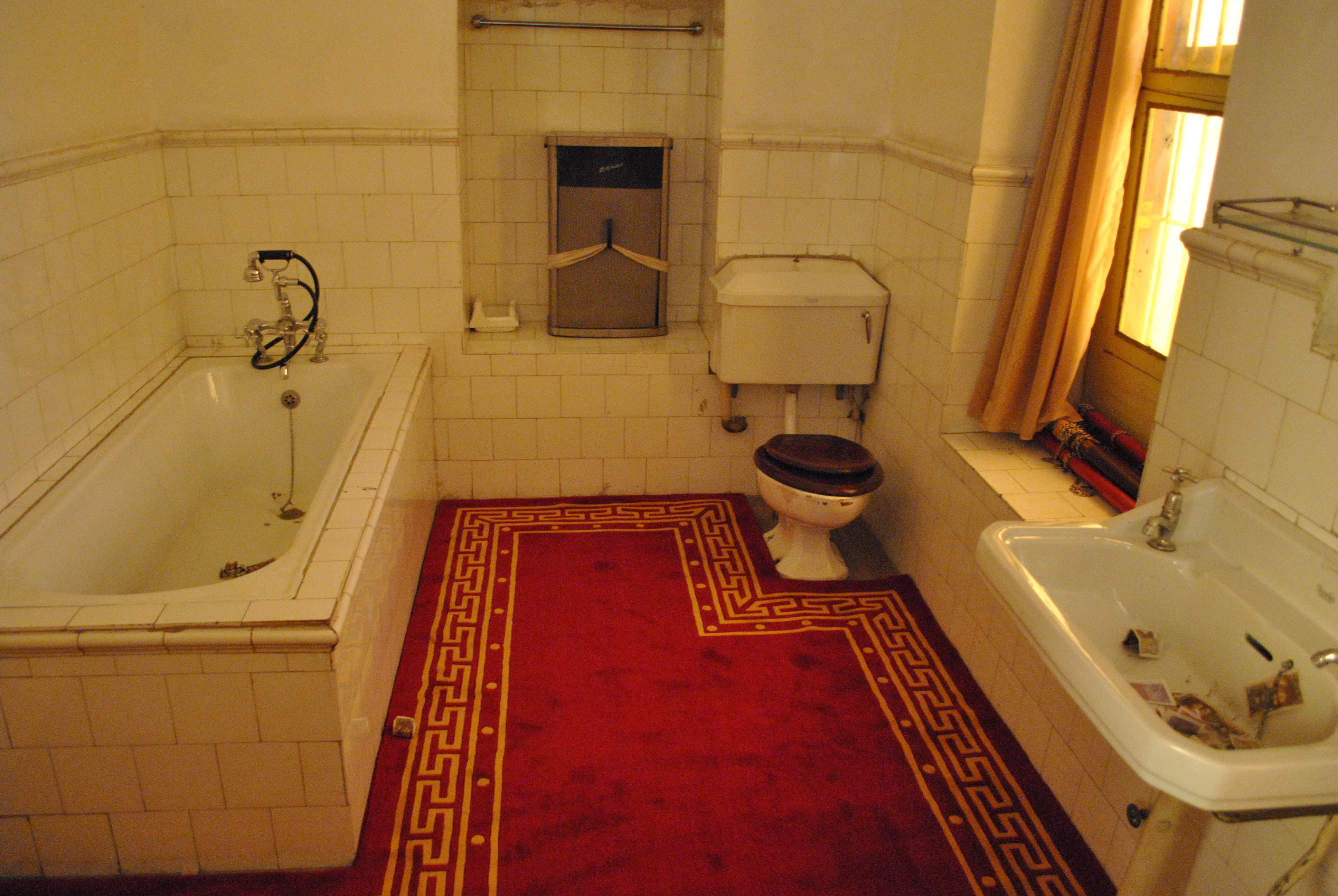 Bathroom of the 14th Dalai Lama at Norbulingka, Lhasa, Tibet.